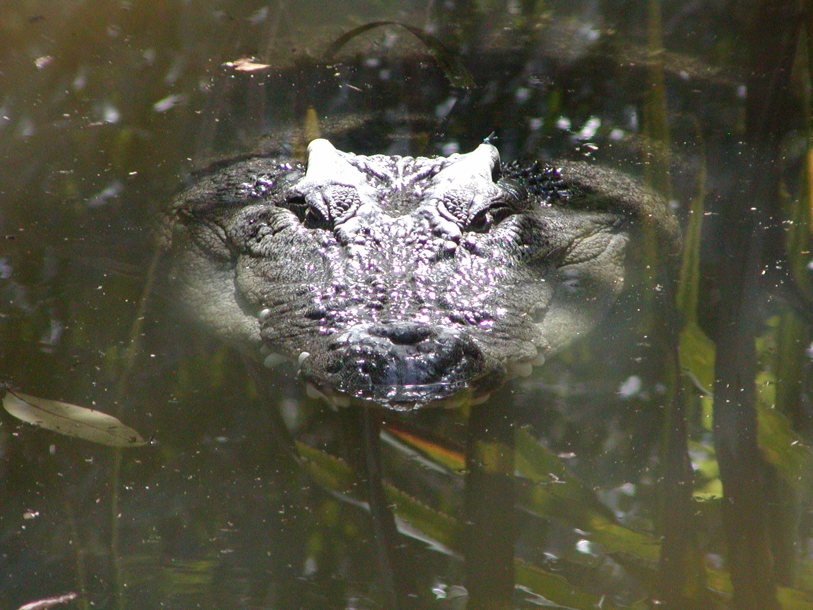 Crocodylus porosus at Hartleys Creek Crocodile Farm, near Ellis Beach/Cairns, Australia